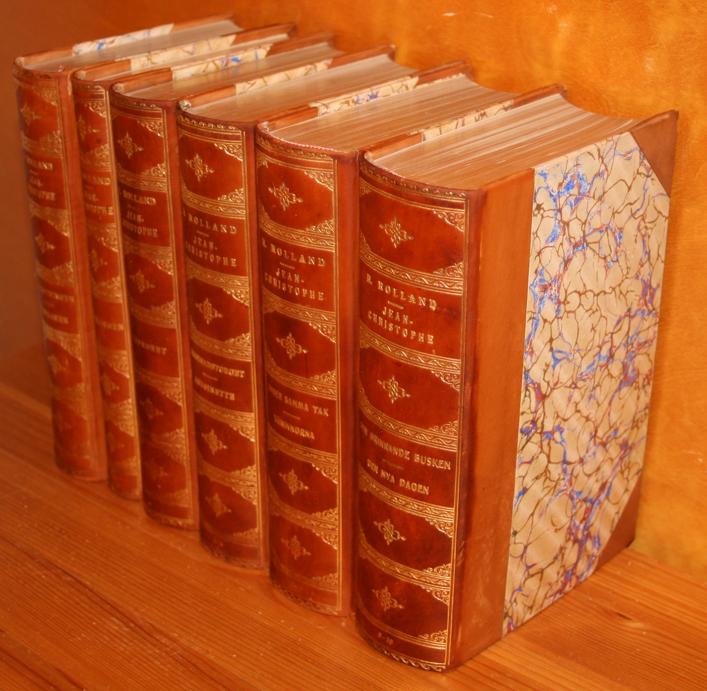 Book spines of the work "Jean-Christophe" by Romain Rolland in Swedish translation. 10 parts in 6 volumes.